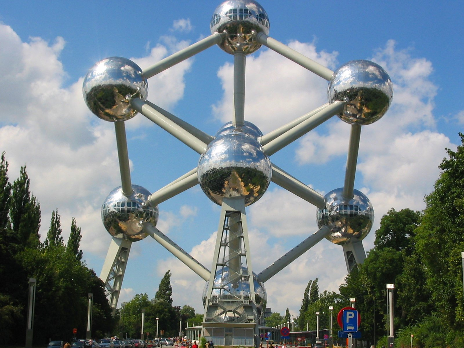 The Atomium, Heysel, Belgium.